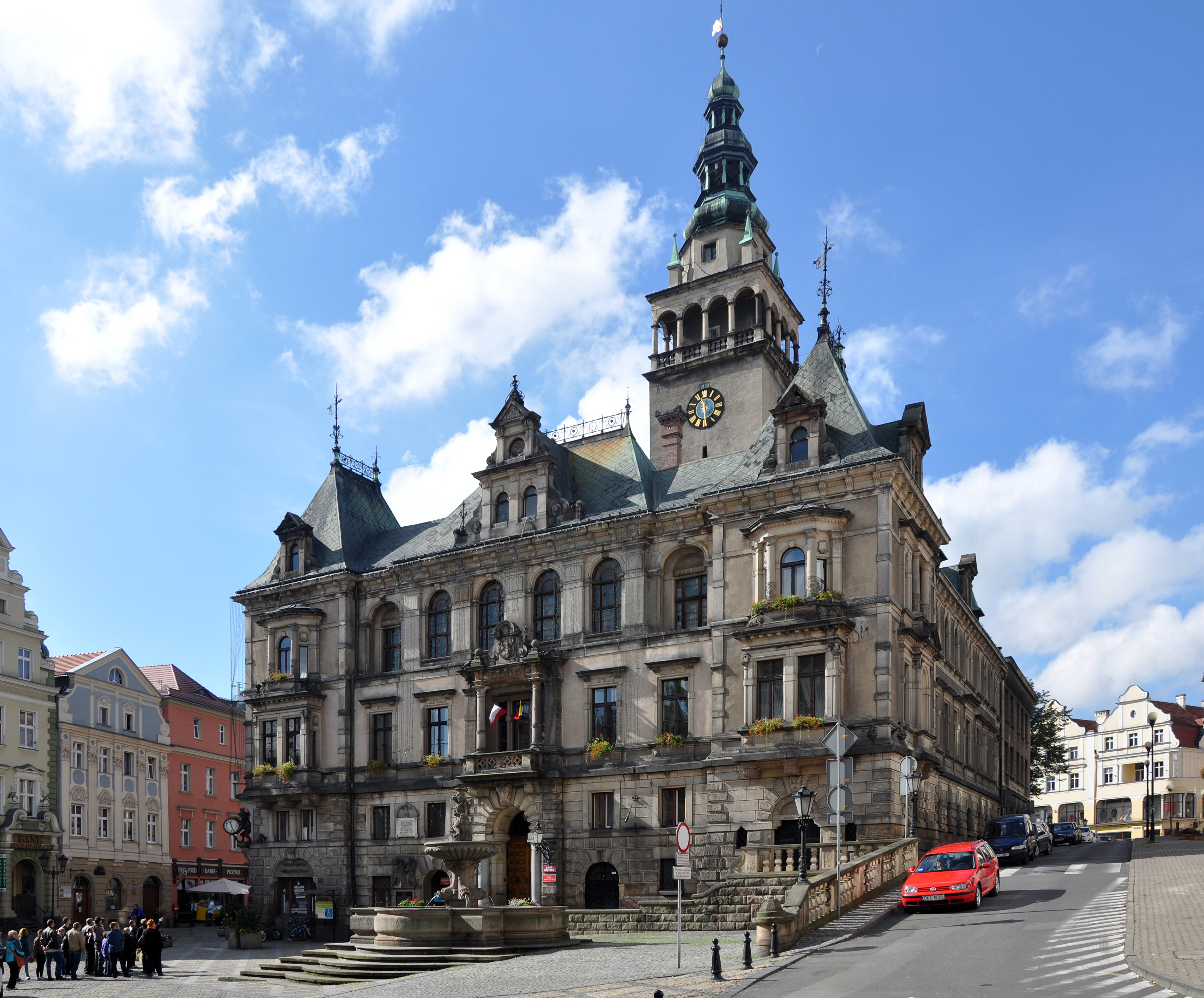 Town hall in Kłodzko